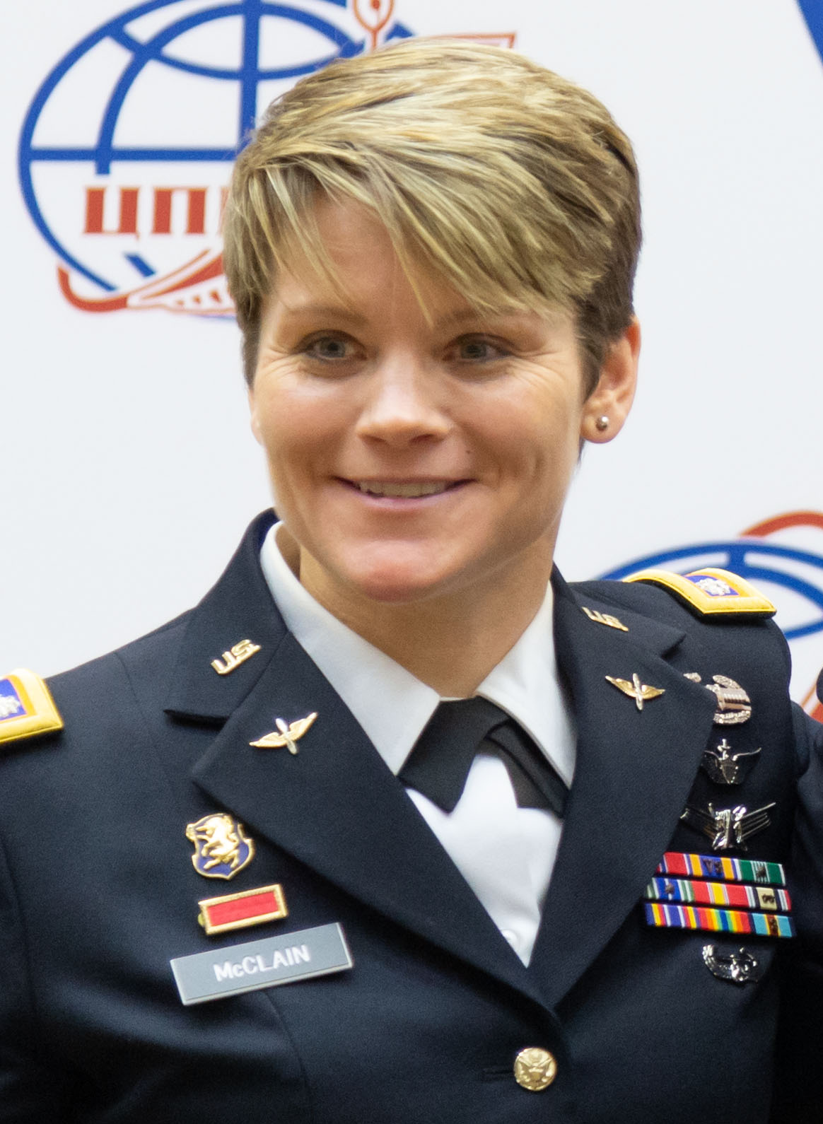 At the Gagarin Cosmonaut Training Center in Star City, Russia, Expedition 58 crew member Anne McClain of NASA poses for pictures Nov. 15 following the crew’s news conference. She will launch Dec. 3 on the Soyuz MS-11 spacecraft from the Baikonur Cosmodrome in Kazakhstan for a six-and-a-half month mission on the International Space Station.